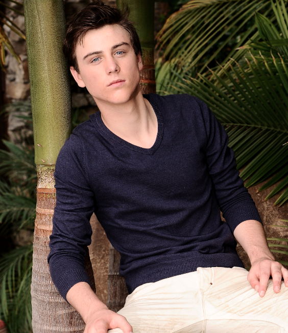 Picture of Sterling Beaumon in 2012.